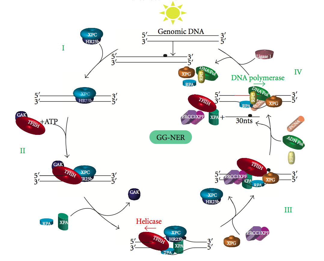 Cartoon depiction of global genomic repair, a subpathway of nucleotide excision repair.Shows the binding of involved proteins at various steps (XPC, HR23b, CAK, TFIIH, XPA, RPA, XPG, XPF, ERCC1, TFIIH, PCNA, RFC, ADN Pol, Ligase I).